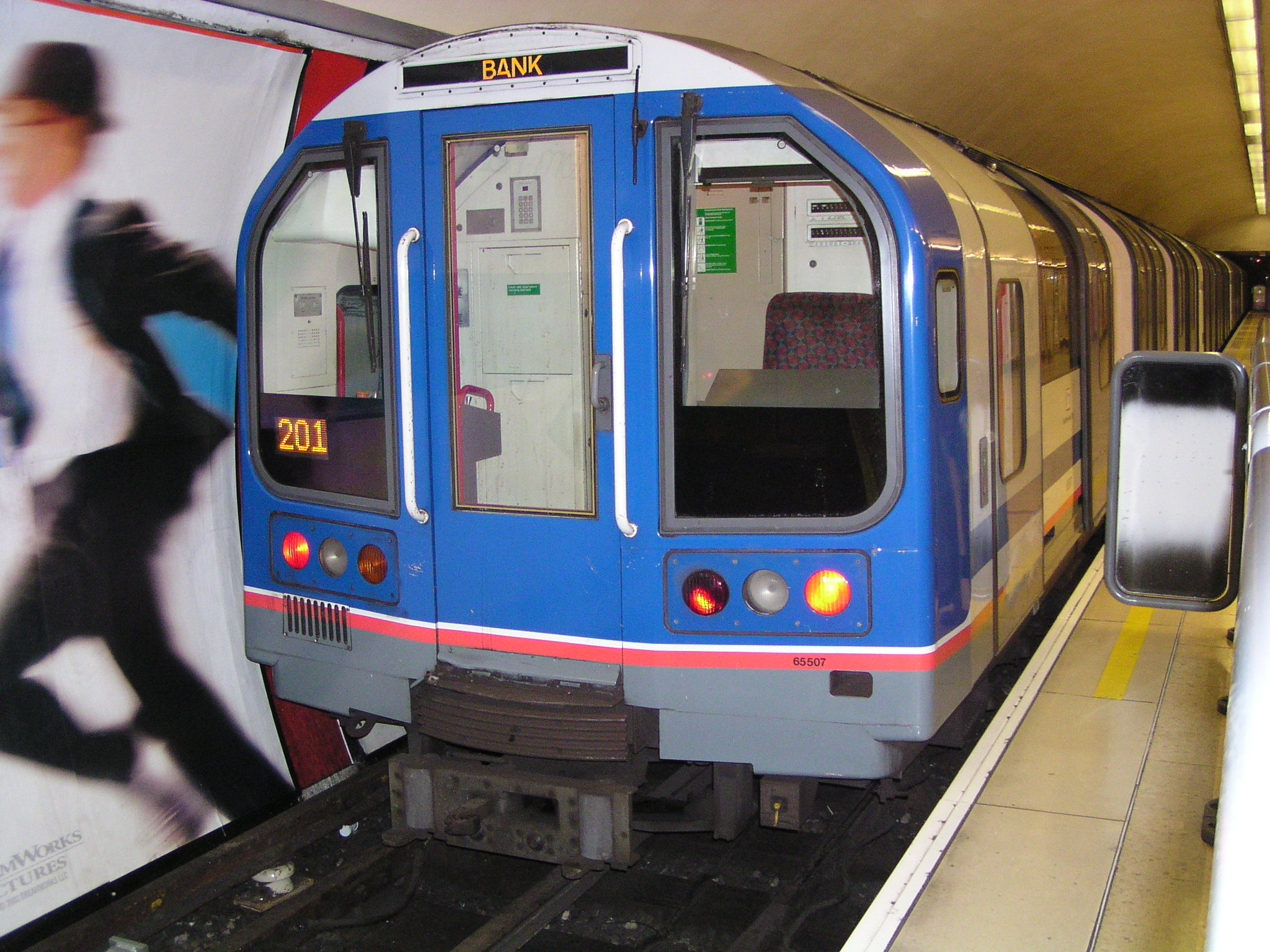 Former British Rail Class 482 units 65507+67507 and 67508+65508 at Bank tube station on the Waterloo & City line on January 25, 2003. Despite being operated as part of the London Underground since 1994, these units still carry Network SouthEast livery.